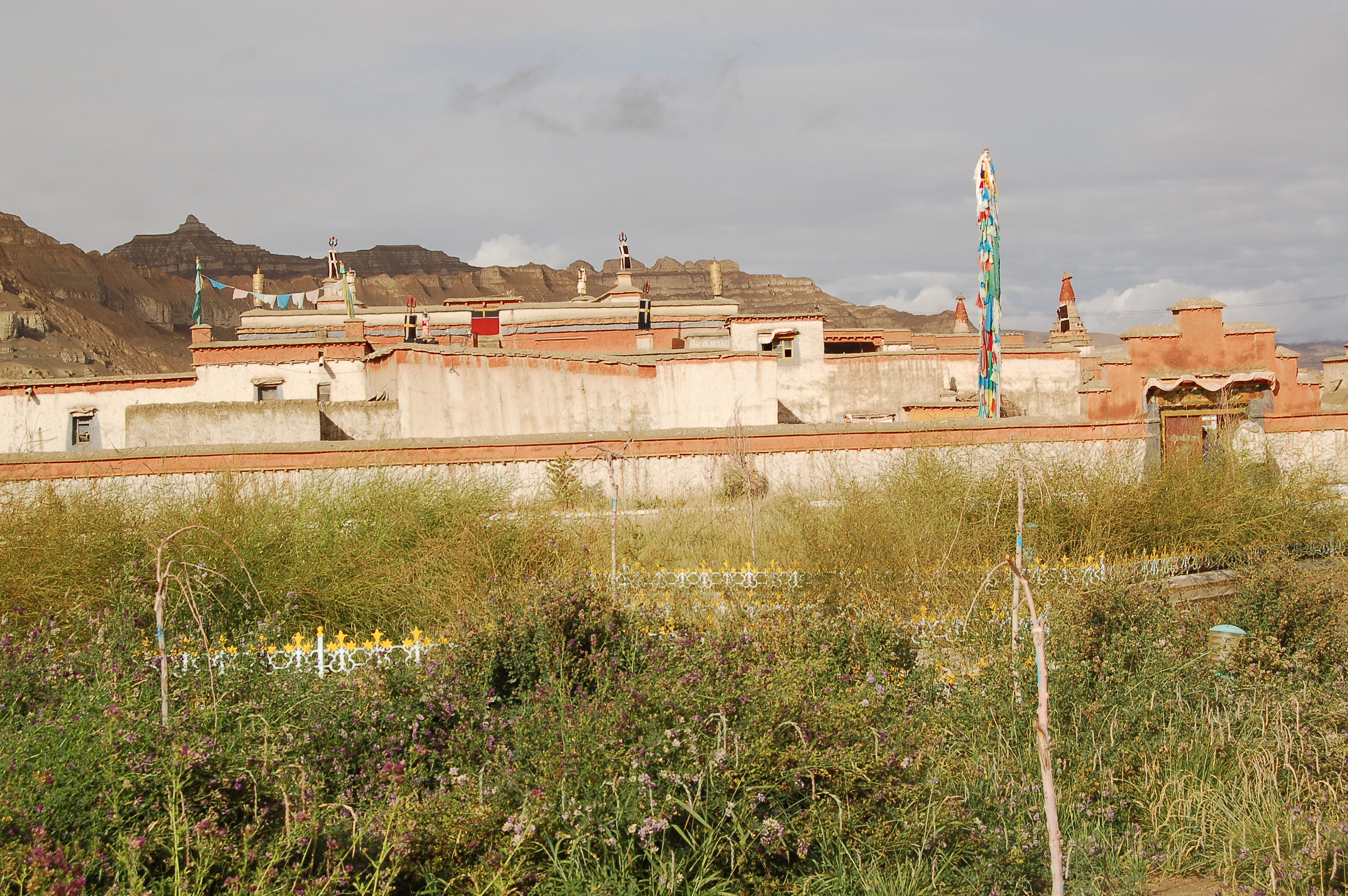 View of Tholing monastery in Western Tibet (Detail 1)